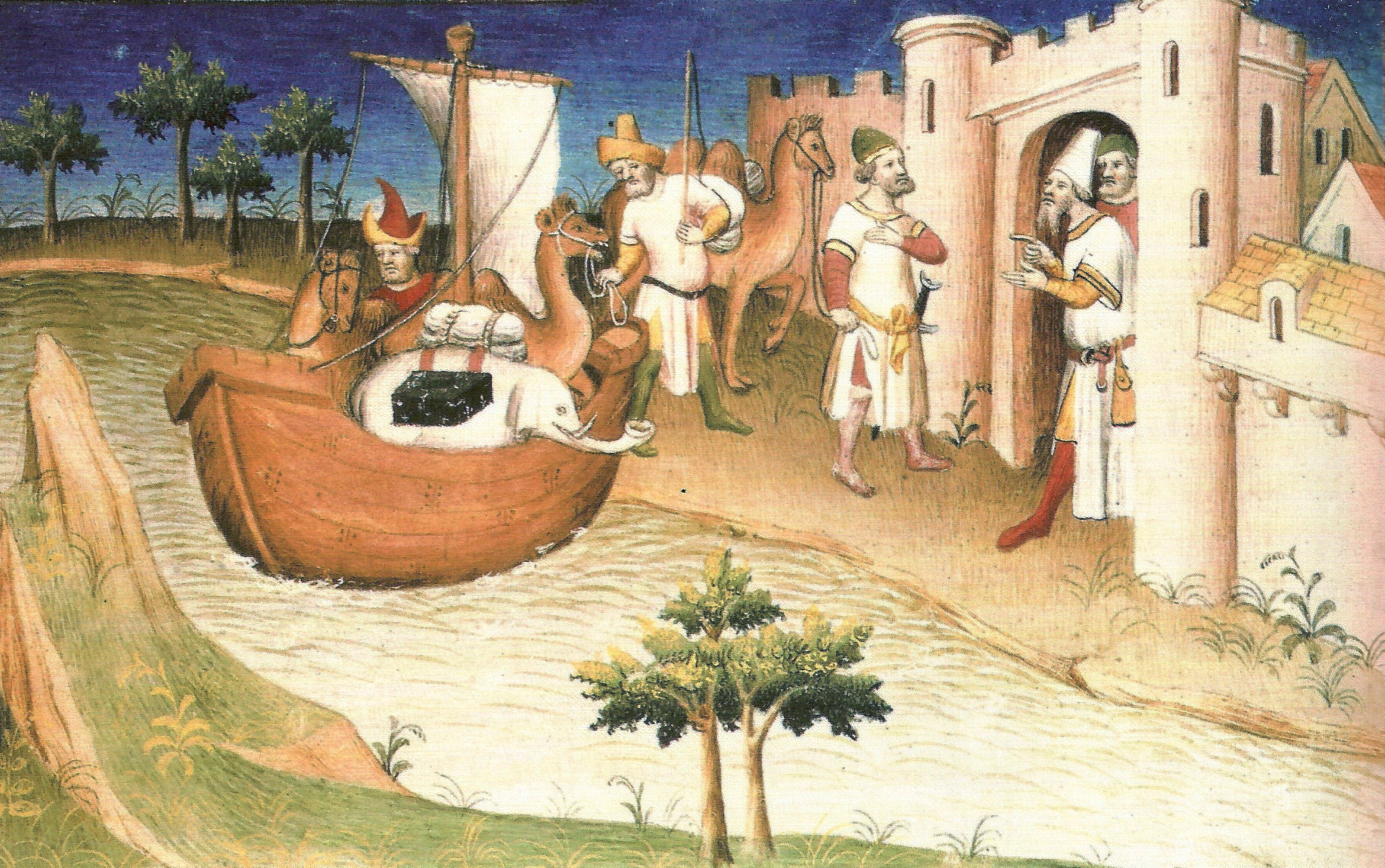 Marco Polo travelling, Miniature from the Book "The Travels of Marco Polo" ("Il milione"), originally published during Polo's lifetime (c. 1254 - January 8, 1324), but frequently reprinted and translated.